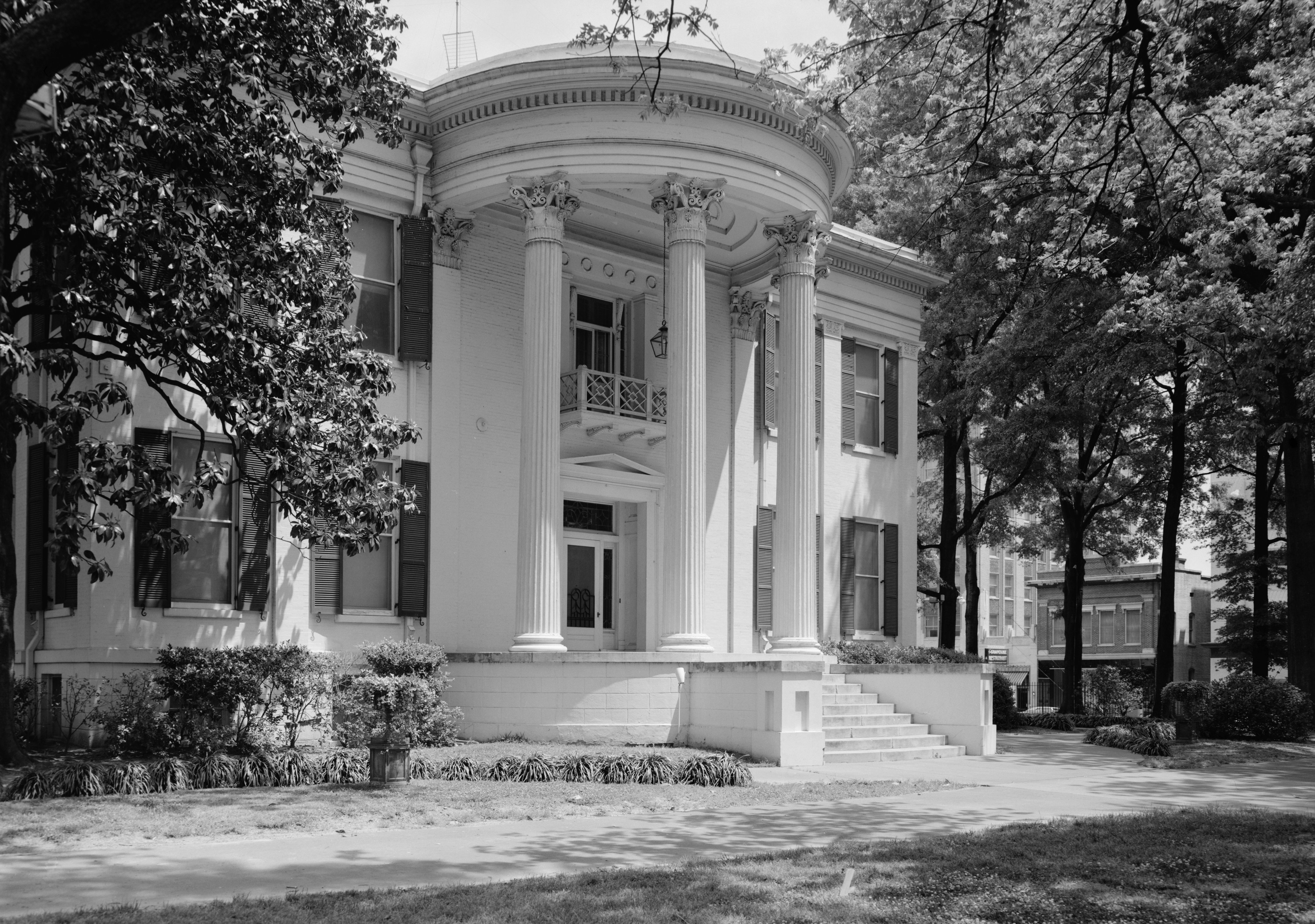 Mississippi Governor's Mansion